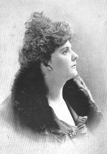 Photographic image of American journalist Margherita Arlina Hamma (1867-1907), cropped. From The Magazine of Poetry and Literary Review, published by Charles Wells Moulton, Buffalo, New York, vol. 5 (1893), p. 296.